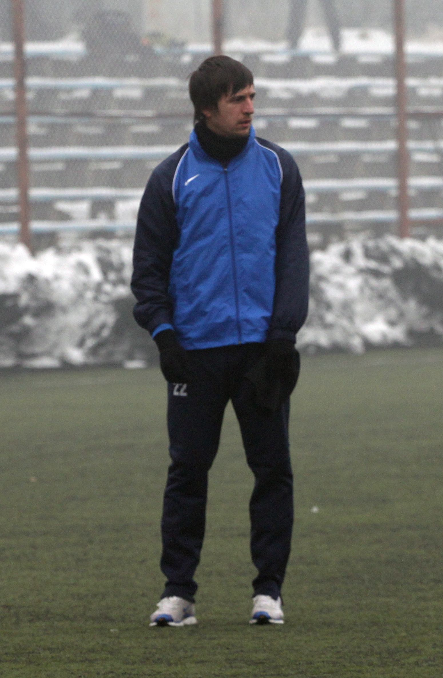 Darko Tasevski (Macedonian: Дарко Тасевски) (born 20 May 1984) is a Republic of Macedonia national footballer. He plays for Levski Sofia in the Bulgarian A PFG as a midfielder.